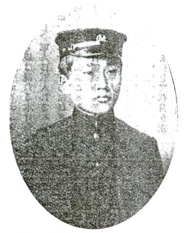 17 age of Yi Gwang-su, Korean writer and novelists